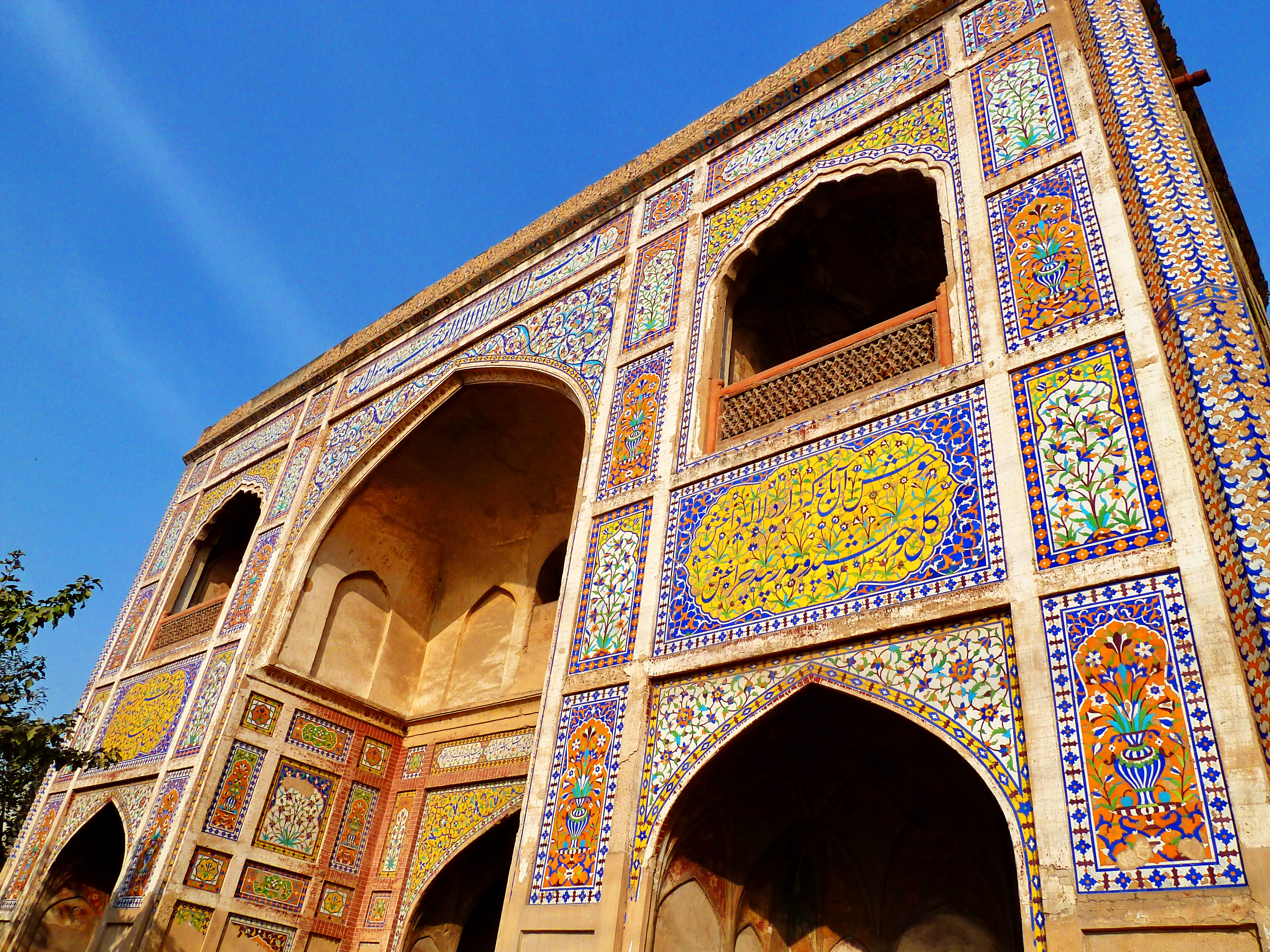 A view of the Gulabi Darwaza - the gateway to Dai Anga's Tomb, Lahore. This is a photo of a monument in Pakistan identified as the PB-58